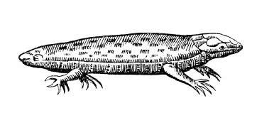 Two-headed lizard (amphisbaena). Note: this image is not found in the cited book (under any name), and the book's illustration of the Amphisbaena grevini[1] shows a different looking elongated reptile.